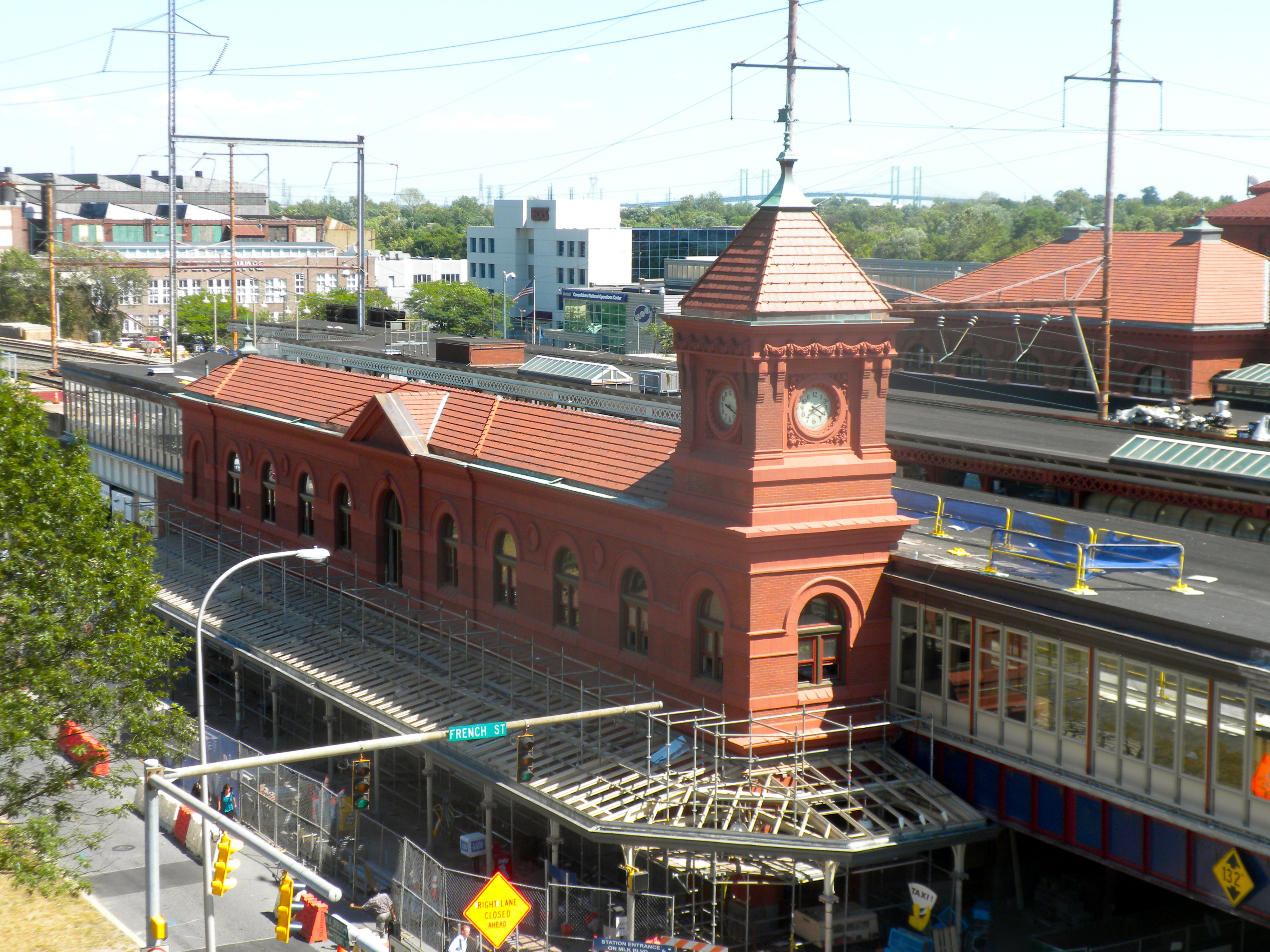 Wilmington Amtrak Station — At Front and French Sts. in Wilmington, Delaware. Design: Frank Furness, architect (1908). Photo taken from the top of the parking lot across the street. On NRHP since November 21, 1976.